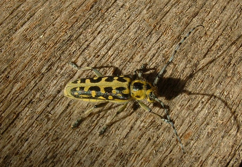 Saperda scalaris photo by Jeffdelonge Vellefrey et VelleFrange 70 France Juin 2006